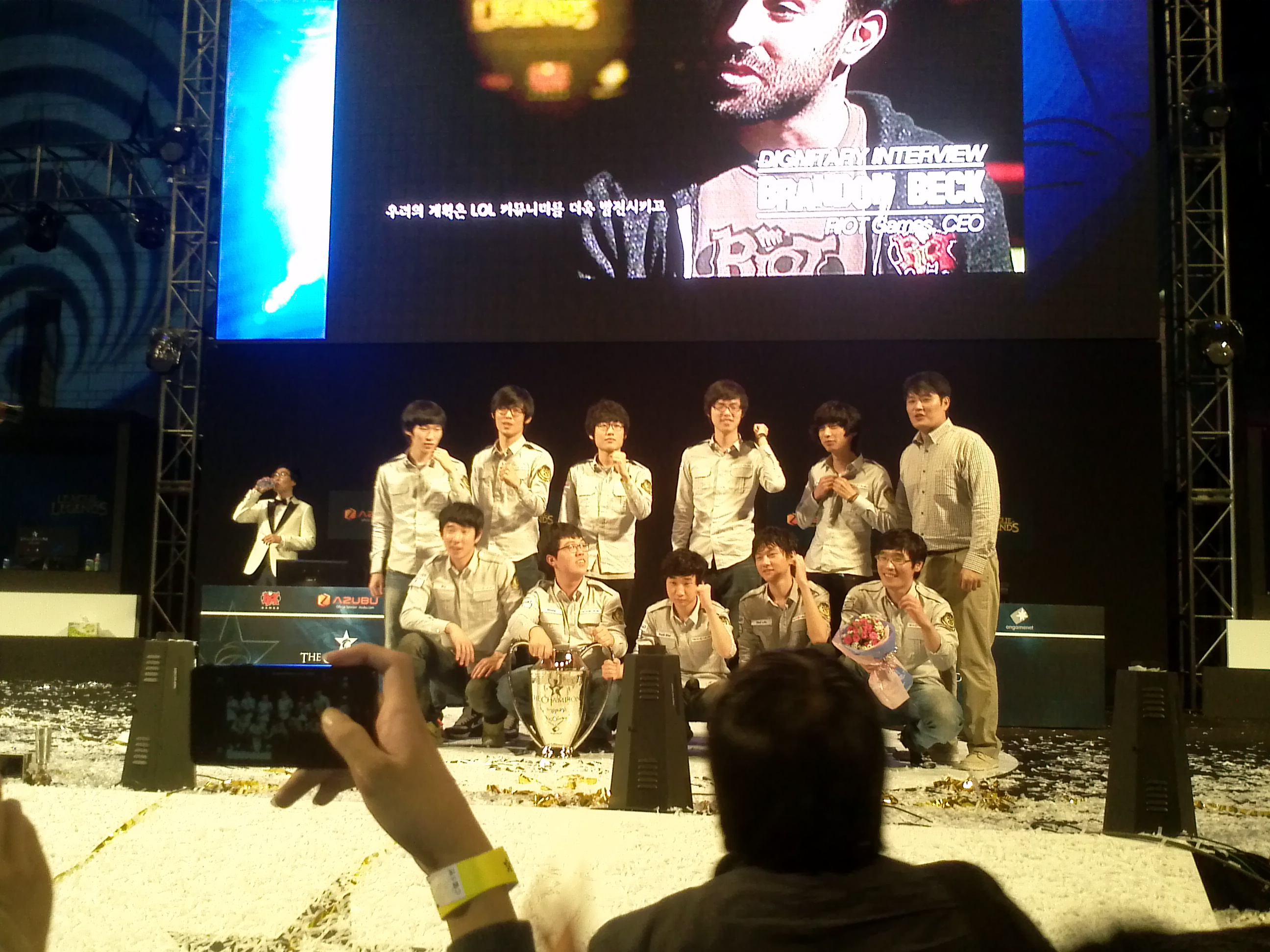 League of Legends team of Azubu Frost at the OGN Champions finals 2012